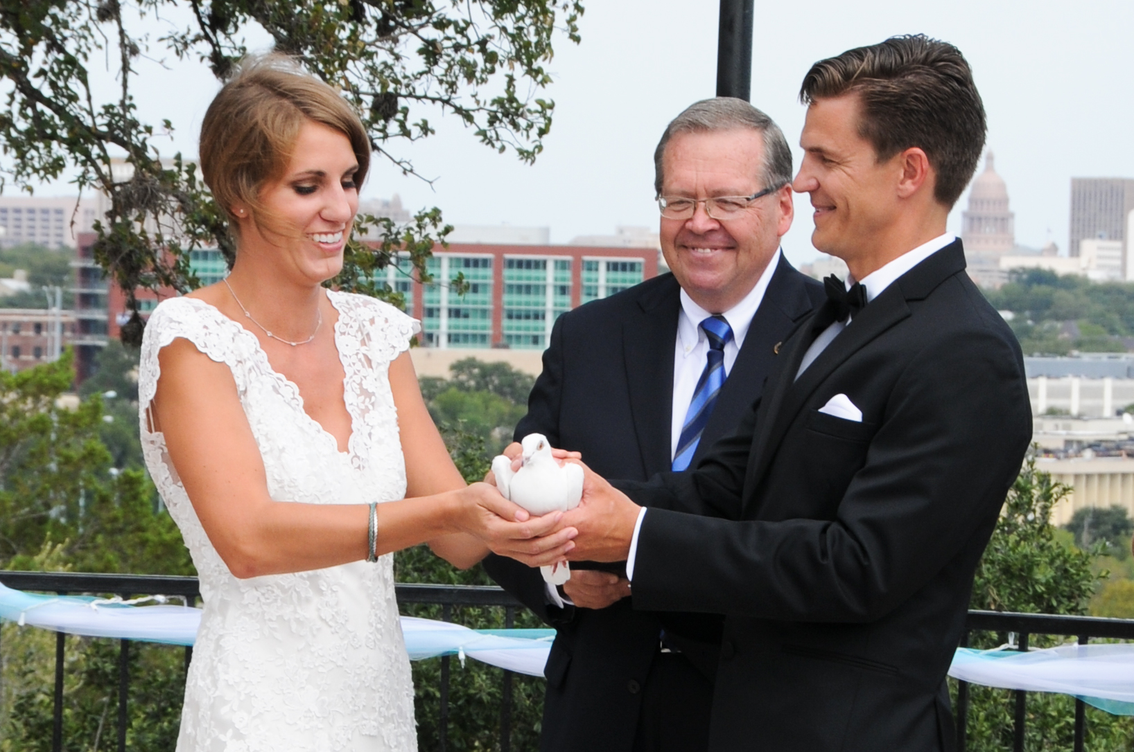 Wedding at Zilker Clubhouse